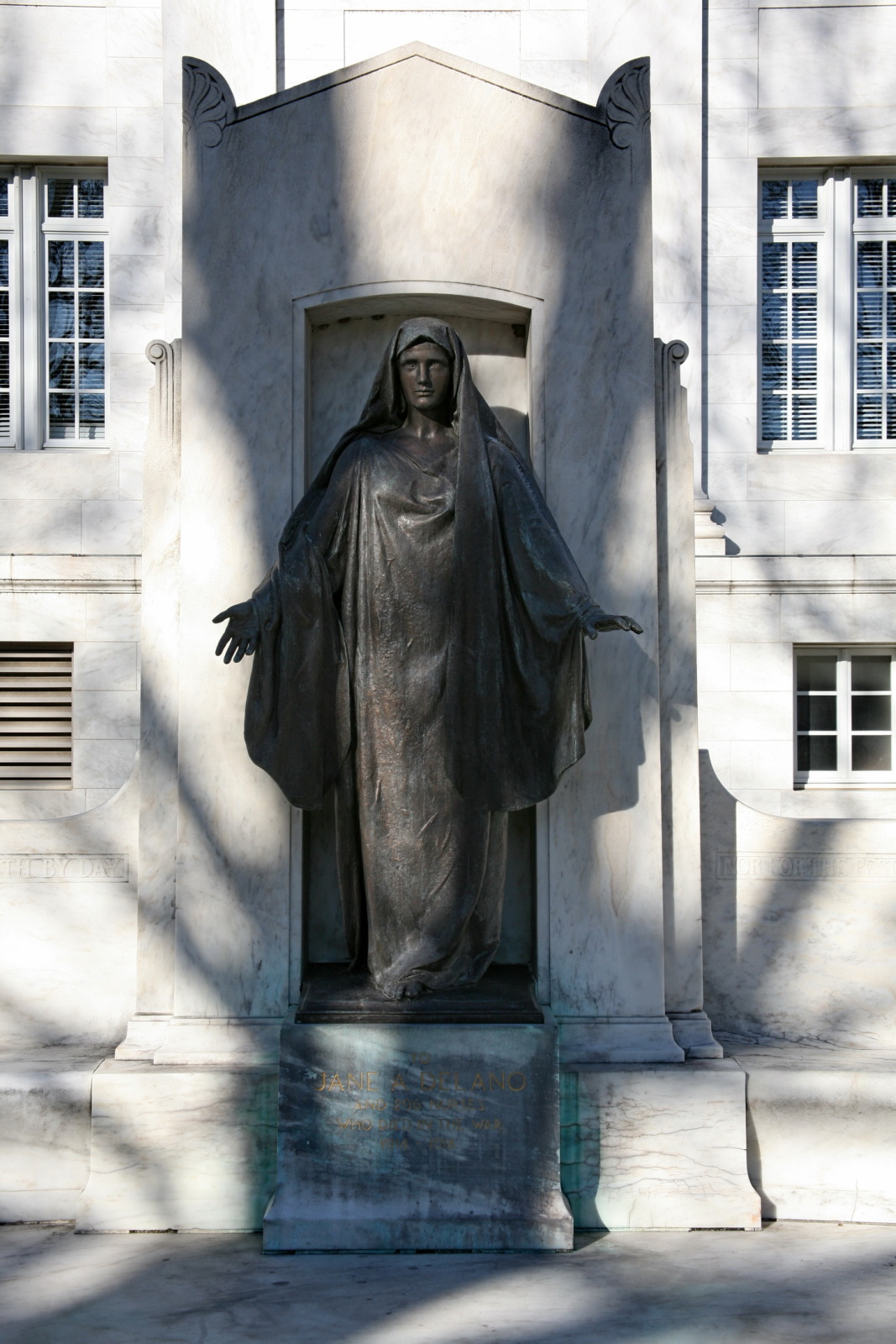 The Jane Delano Memorial pays homage to the founder of the Red Cross Nursing Service and to Red Cross nurses. By physician and sculptor, Tait McKenzie, the memorial honors the 296 nurses, including Delano, who gave their lives as the result of World War I. Sponsored by American nurses, it was dedicated in April 1933, making it the first sculpture to be placed on the grounds of Red Cross Square. A curved stone wall and continuous bench embrace this monumental bronze figure of a veiled and draped woman who reaches with outstretched arms to those in need. The inscription, a verse from the 91st Psalm reads: "Thou shalt not be afraid for the terror by night; nor for the arrow that flieth by day; nor for the pestilence that walketh in darkness; nor for the destruction that wasteth at noonday."